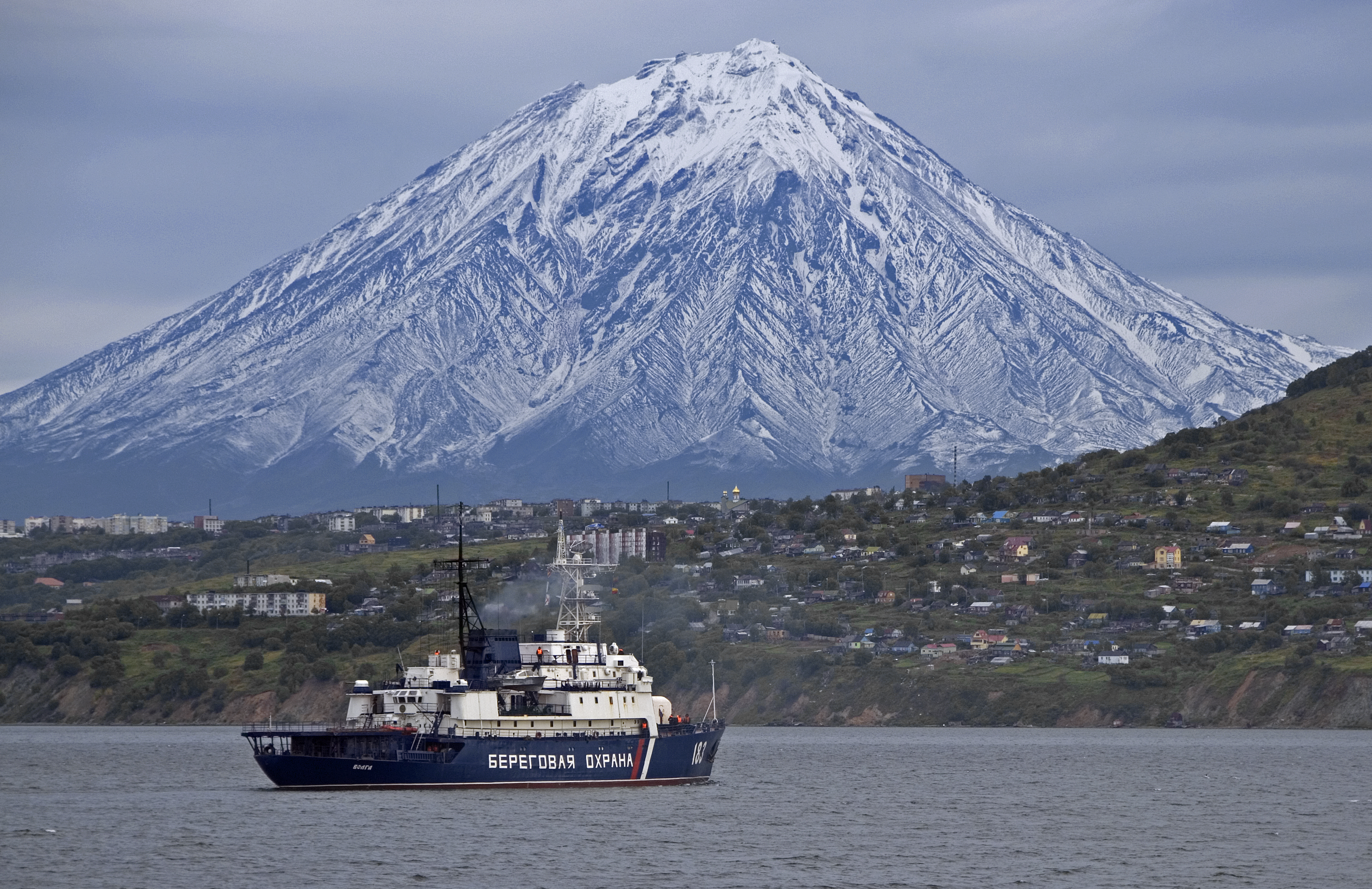 (Sept. 18, 2007) PETROPAVLOVSK, Russia - A Russian Border Guard vessel escorts the U.S. Coast Guard Cutter Boutwell here. The Boutwell arrived here as U.S. Coast Guard representatives for the North Pacific Coast Guard Forum (NPCGF). The forum was developed to increase international maritime safety and security in the Northern Pacific Ocean and its borders.